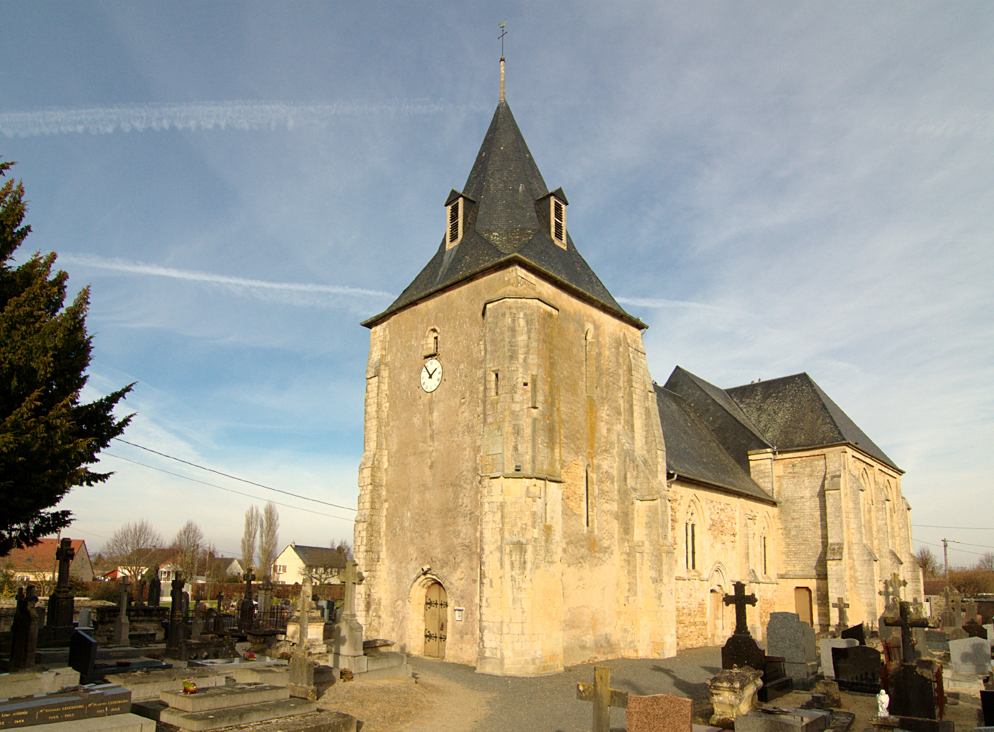 In Sainte-Honorine-du-Fay, the church.